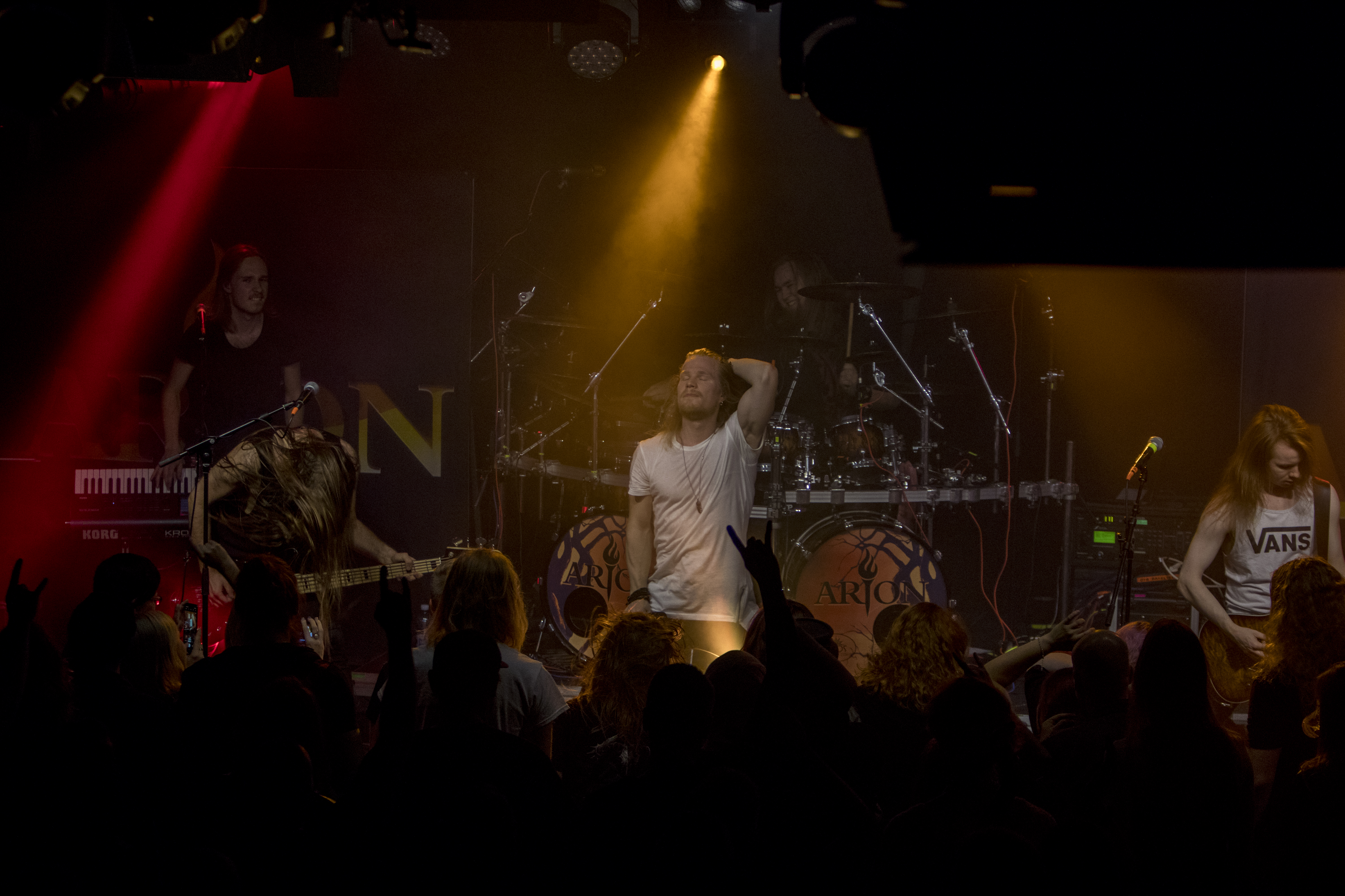 Arion performing at On The Rocks during the Heavy Metal Heart 13 festival, Helsinki (Finland), 11 October 2019